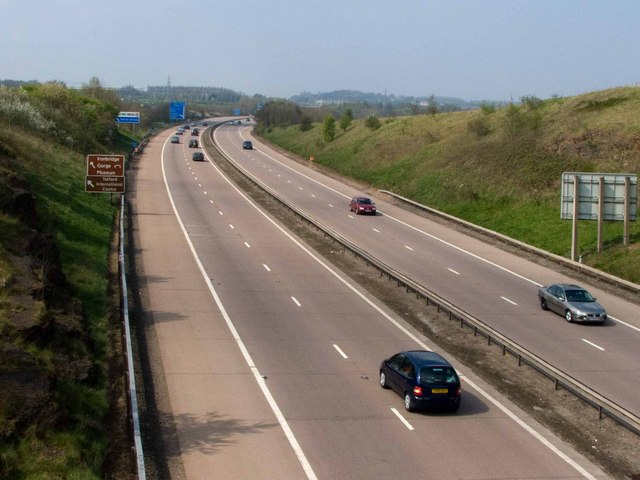 M54: Westbound to Telford. The motorway here is made of concrete, which makes it noisy.